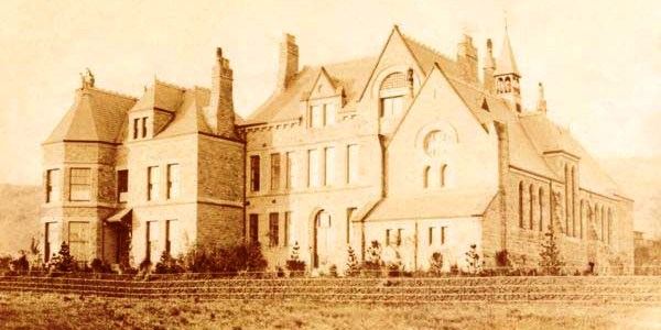 Buxton College was a boys' school in Buxton, Derbyshire. designed by William Pollard from Manchester. 1791-1991 it not here.